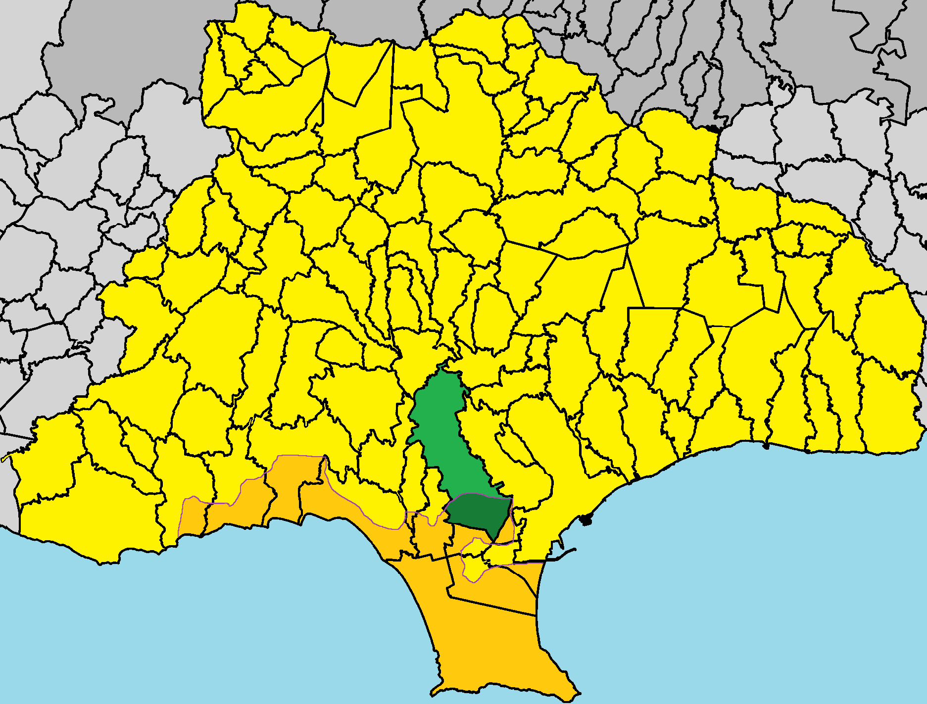 Ypsonas in Limassol District.